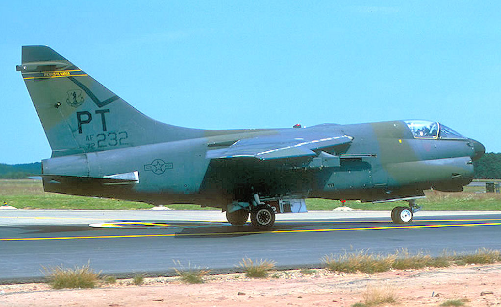 146th Tactical Fighter Squadron Ling-Temco-Vought A-7D-13-CV Corsair II 72-0232 1974: Delivered to 355th Tactical Fighter Wing/354th TFS, Davis-Monthan AFB, NV (c/n D-354) Transferred to 188th Tactical Fighter Squadron, NM Air National Guard, 1977 Transferred to 146th Tactical Fighter Squadron, PA Air National Guard, 1979 Transferred to AMARC as AE0014 Sep 21, 1990 Disposition: To Holloman AFB, NM. As range target 0